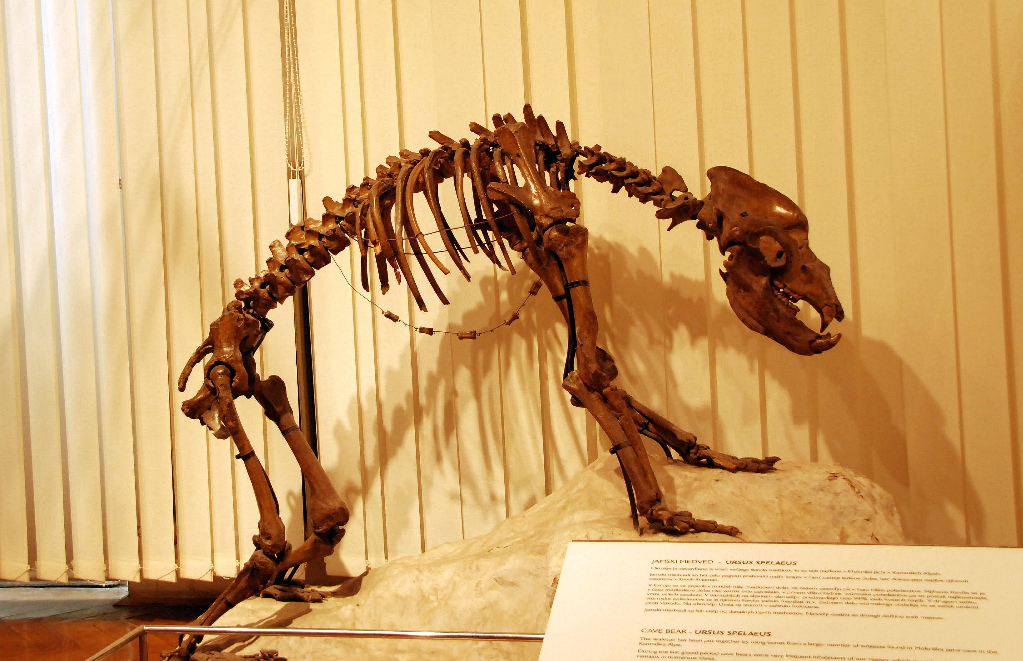 Skeleton of a cave bear (Ursus spelaeus) in the Natural History Museum of Slovenia.